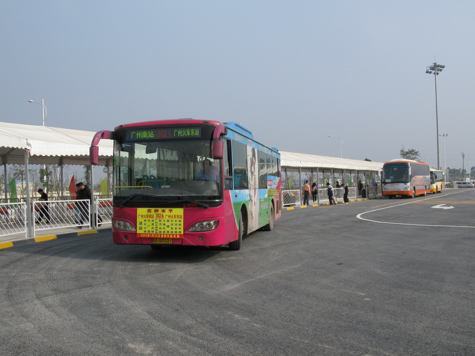 Passenger Transport South Station of Guangzhou, Guangzhou South Railway Station